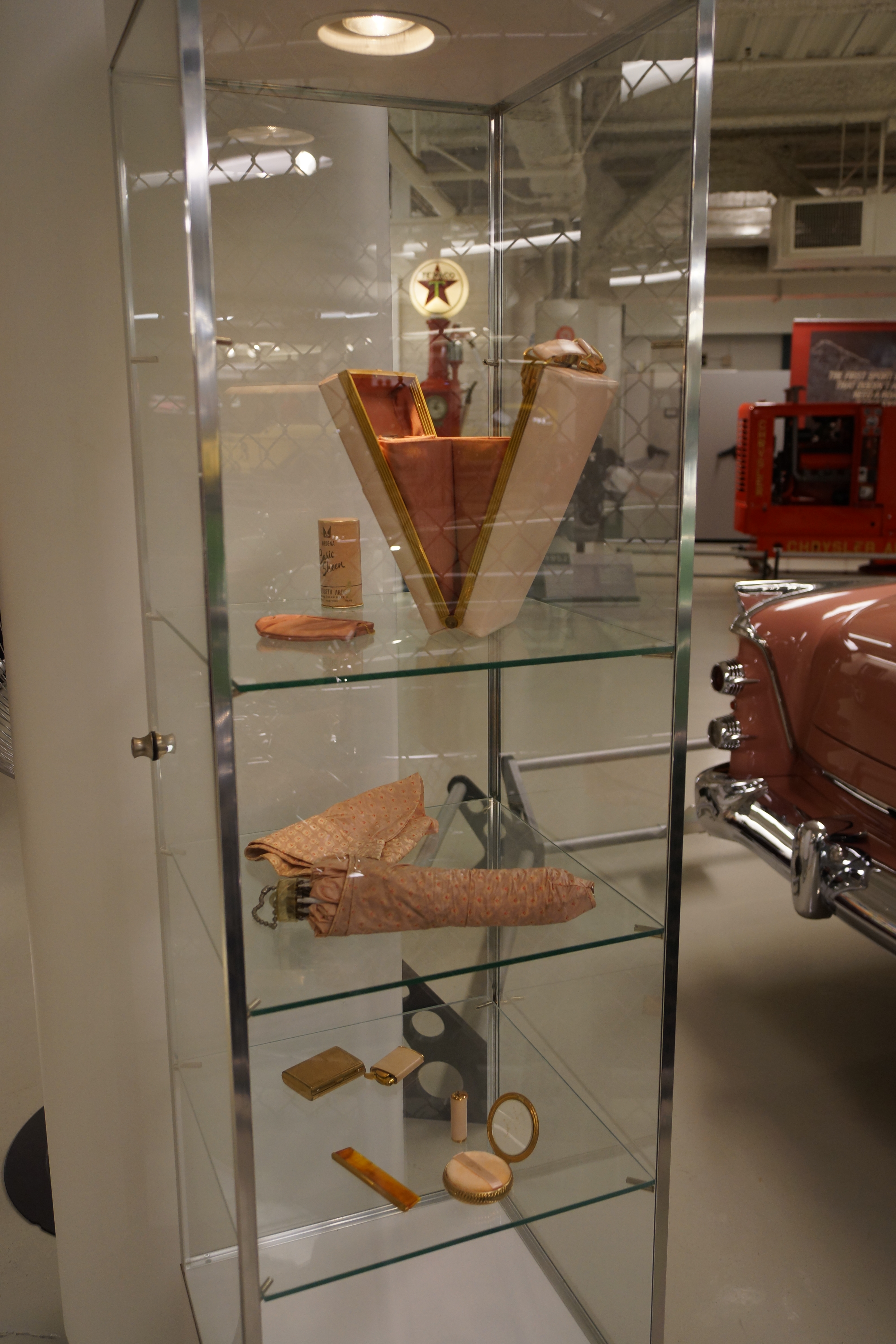 Click here for more car pictures at my Flickr site. Or here for my Car Crazy Tumblr site. Back on November 4th, Hemming's Blog posted an article about the closing of the Walter P. Chrysler Museum . I had missed a couple other opportunities with the WPC Club and others to get into the museum, after it had closed to the public. I did not want to regret missing this last chance to see all of the vehicles before being spread out to other facilities. I trekked from Western Minnesota to Eastern Michigan during Winter Storm Decima. I missed the worst parts of the storm, but still had to endure the aftermath winds, sub zero temperatures and a lake effect snow storm. The trip was difficult, but well worth it. I got to see several Chrysler Corporation concept and show cars that I had only seen pictures of before. There were several clever interactive displays demonstrating various innovations over the years. Since it was the last chance, I duplicated several shots using different camera settings to see what produced better results. I wish I had invested in a strobe light diffuser for all of those indoor pictures. I have not had much experience or success in the past with indoor car images.